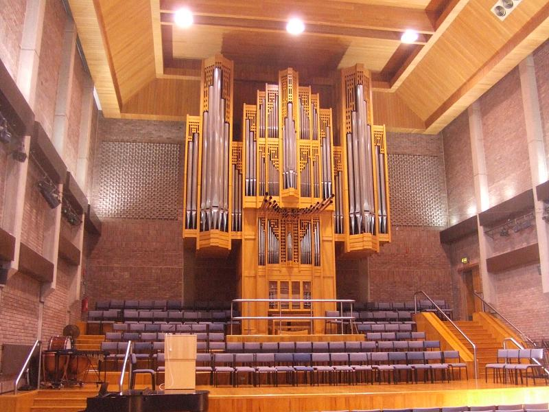 At the City of London School